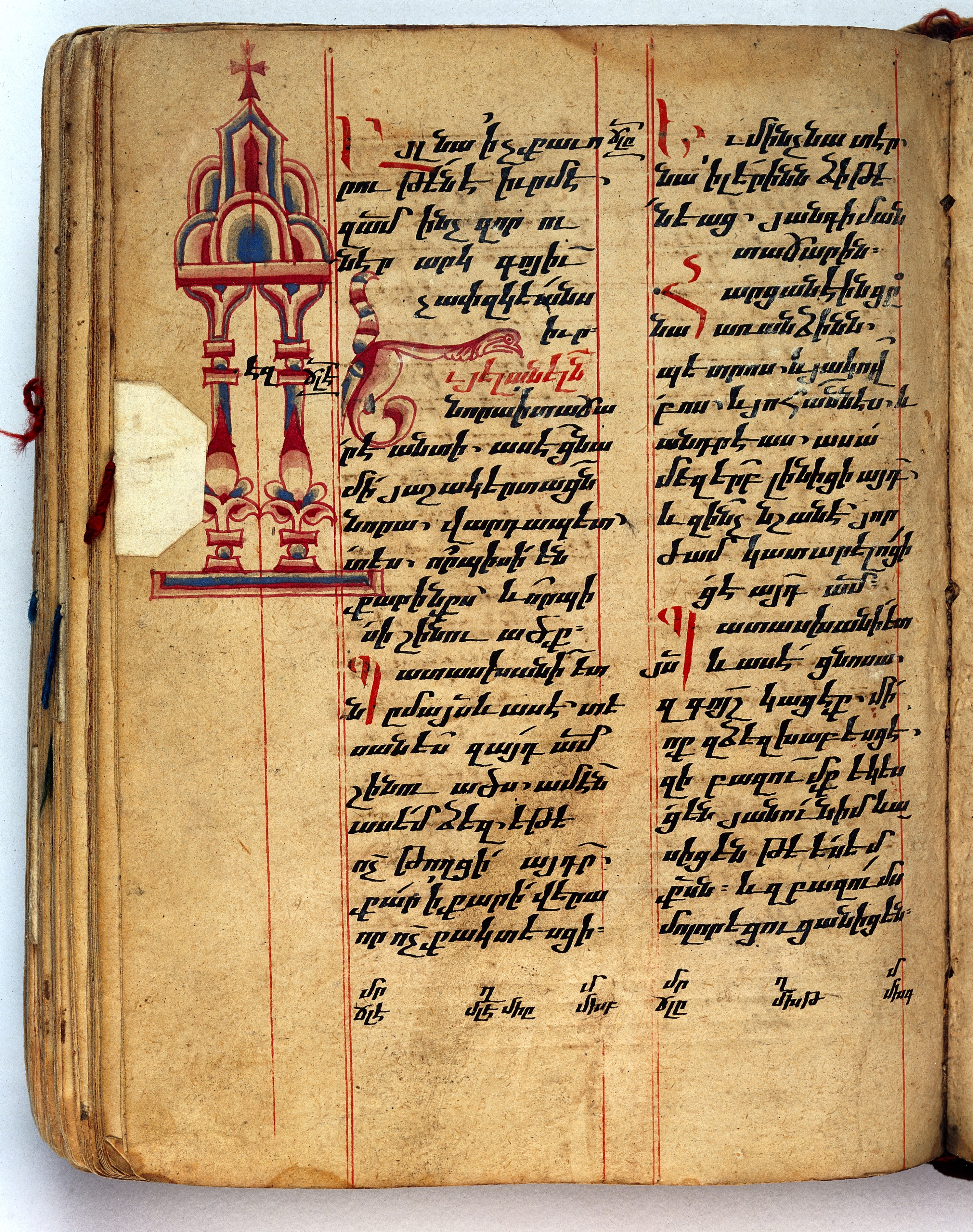 The Four Gospels, 1670-71, Gospel of St Mark showing the Temple illustrating 13: 1-7 Asian Collection Keywords: gospels; apostles; Sacred Subjects; new testament